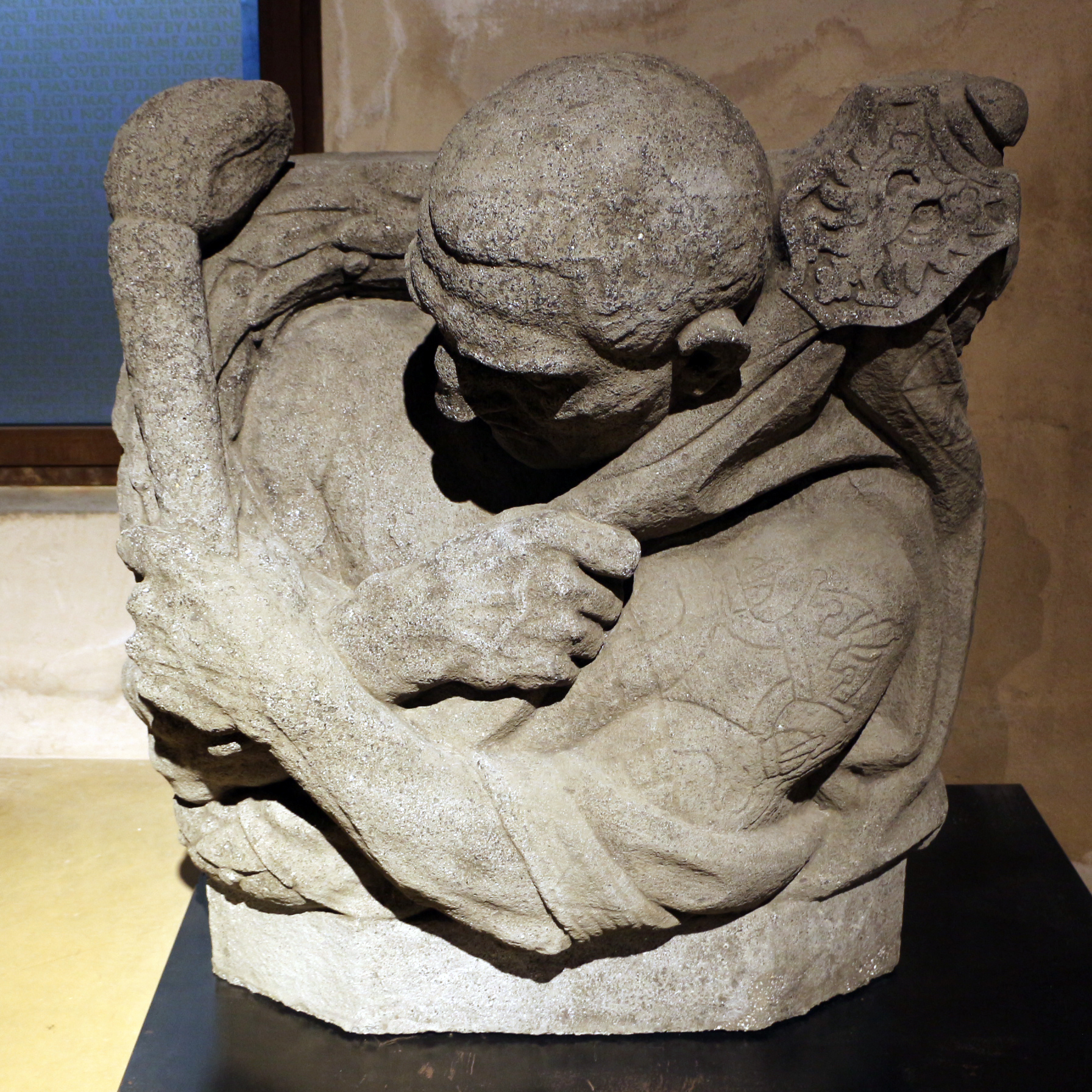 Monument to Victory, Bolzano